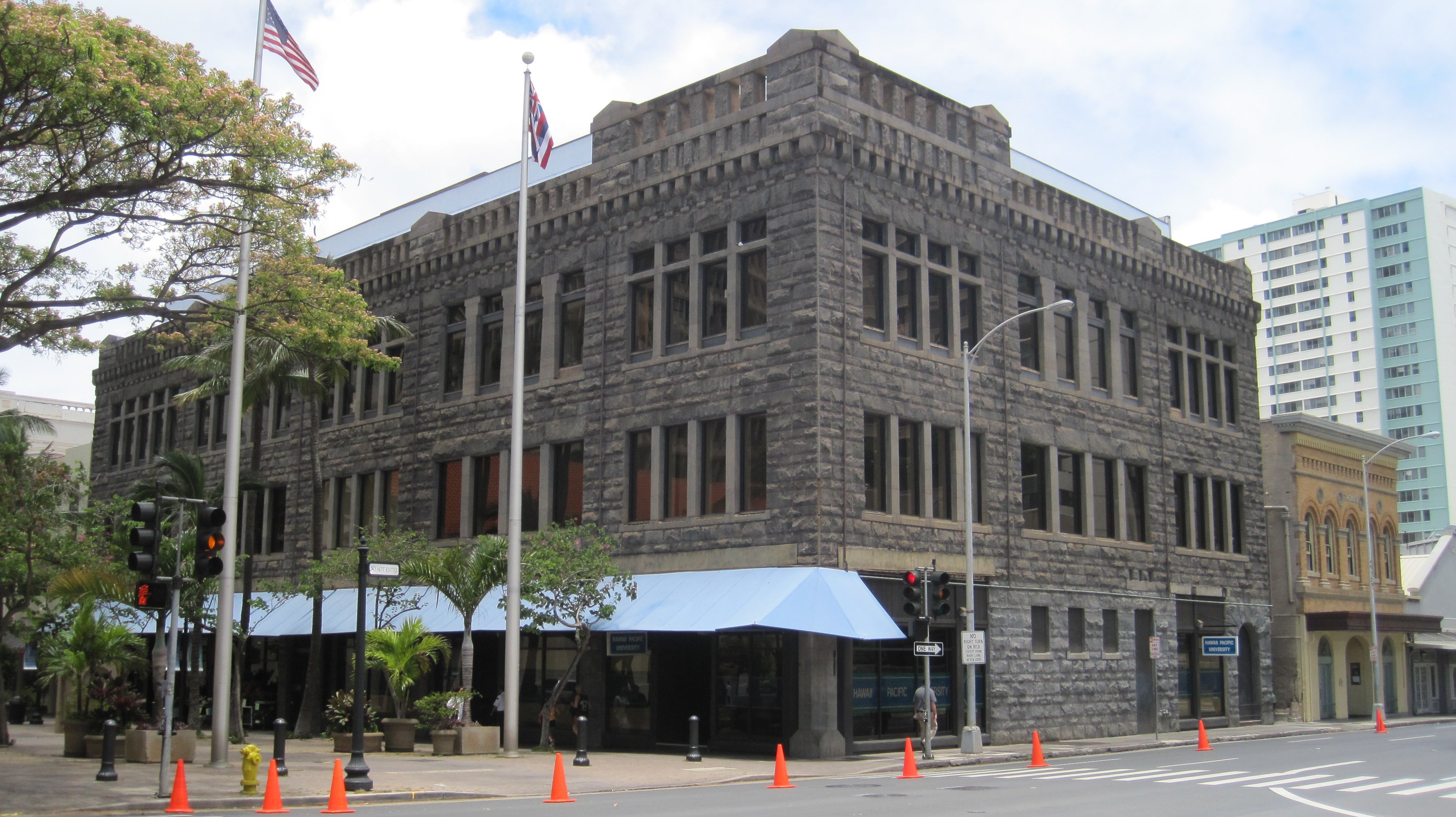 Progress Block, 1188 Fort Street, Honolulu, Hawaii, USA, built in 1897, architect Clinton Briggs Ripley, now part of campus of Hawaii Pacific University